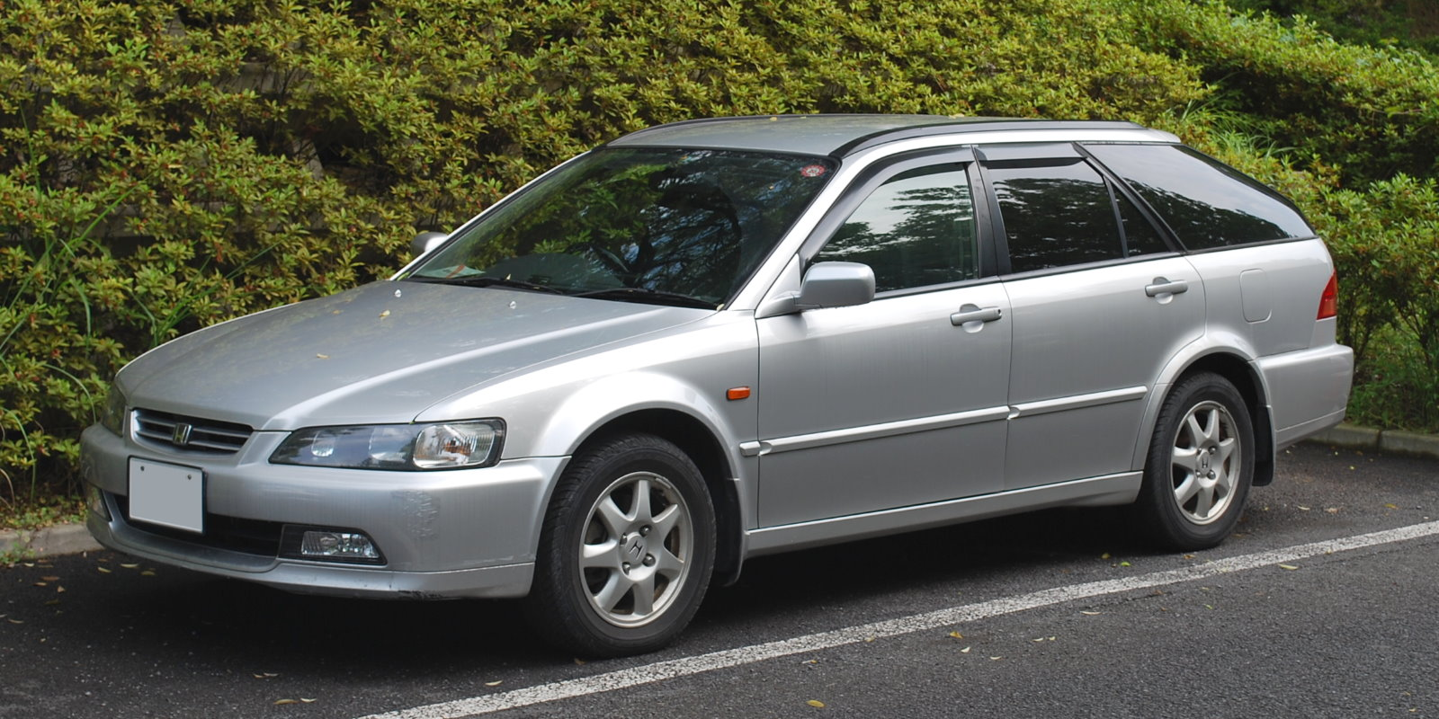 3rd generation Honda Accord wagon